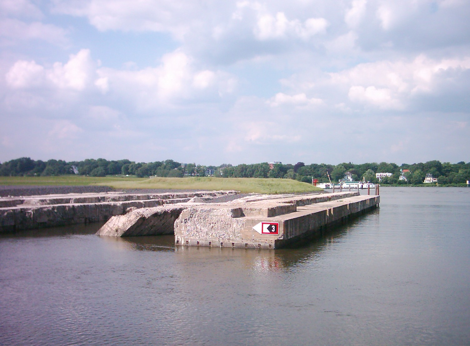 U-Boot-Bunker Finkenwerder, a World War II submarine bunker in Hamburg-Finkenwerder, Germany.